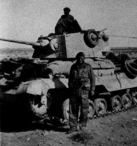 Cruiser tank before the battle of Beda Fomm